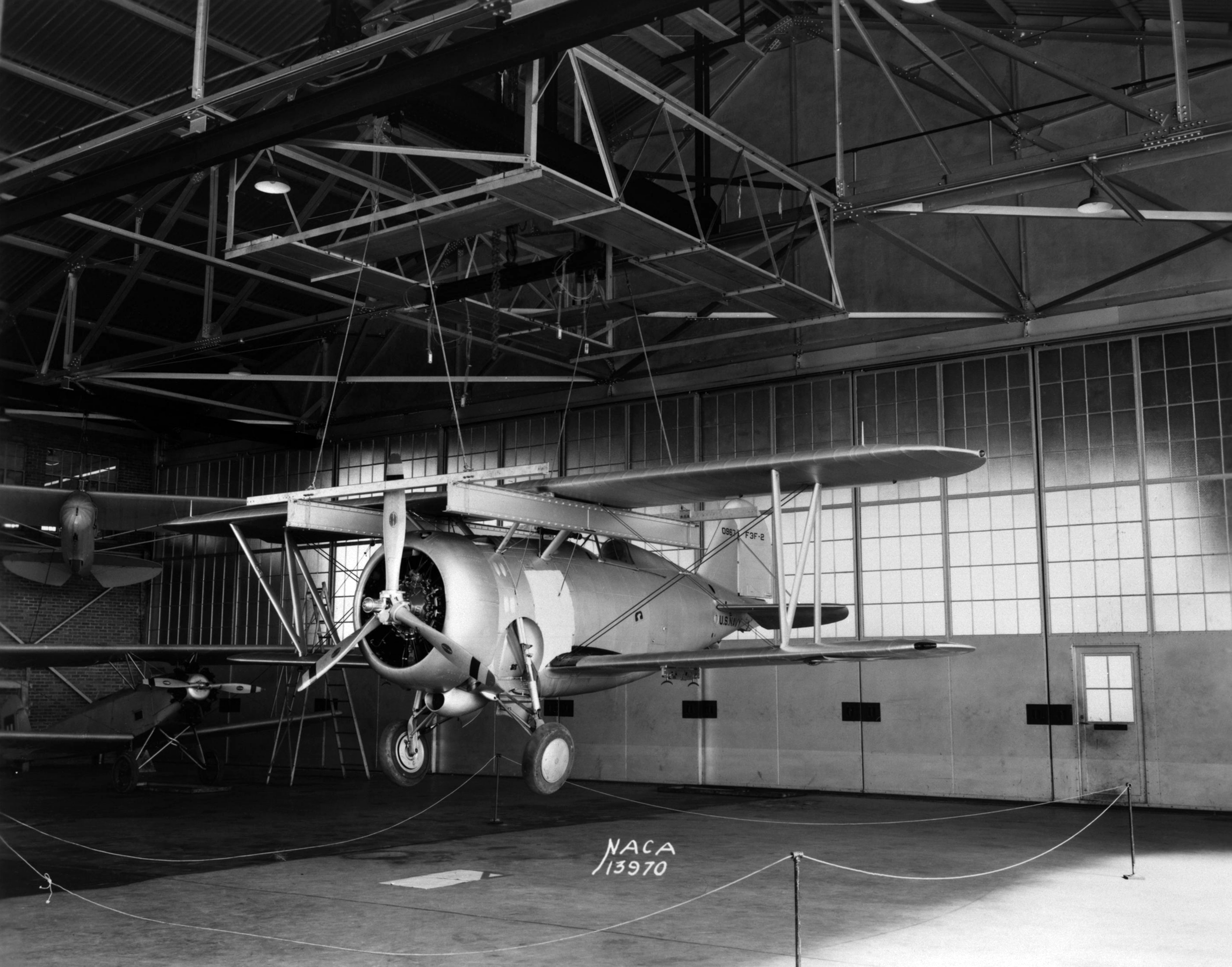 A Grumman F3F-2 (BuNo 0967) at the Langley Aeronautical Laboratory wind tunnel at Hampton, Virginia (USA). The first of the production Grumman F3F-2s is seen here during moment of inertia (MOI) testing.